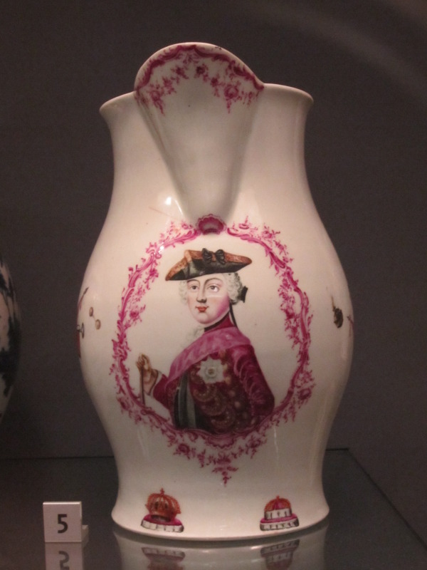 Porcelain jug, Walker Art Gallery, Liverpool, England. Made at Richard Chaffers' factory, Liverpool around 1760. Painted with Frederick II of Prussia, Britain's ally in the Seven Years' War with France.